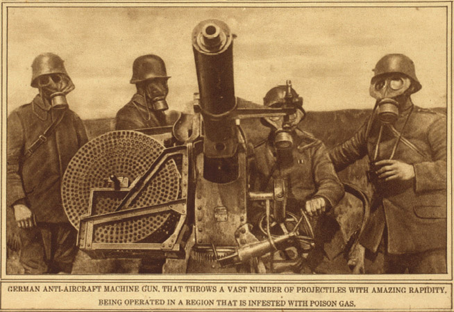 Photograph of German soldiers wearing gas-masks, manning a light anti-aircraft gun. The gun is the Maxim Flak M14, a version of the 37-mm Maxim-Nordenfelt gun.